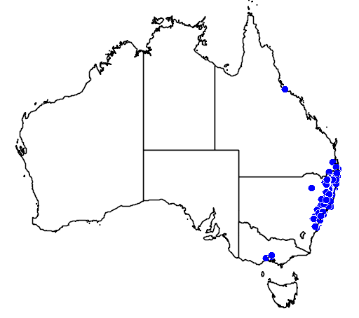 Distribution map of Triboniophorus graeffei